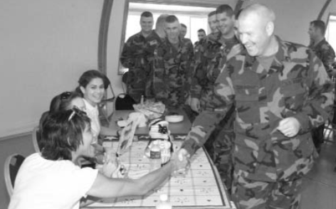 Staff Sgt. Lance Cunningham, 303rd Military Police Company, gets a little bashful when the rest of his company gets him up to the head of the line to meet Shauntay Hinton (Miss USA 2002), Vanessa Semrow (Miss Teen USA 2002) and Justine Pasek (Miss Universe 2002) at JTF Guantanamo Bay.